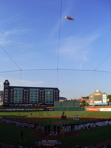 Photo by Craig Michaud. This is Stadium in Manchester, New Hampshire. Home of the New Hampshire Fisher cats. 22:53, 10 February 2009 . . Thebudman623 . . 375×500 (91 KB)